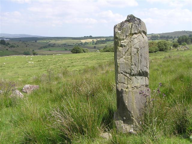 Standing stone at Aghnascribba. The view is looking south-east towards the Ogham Stone